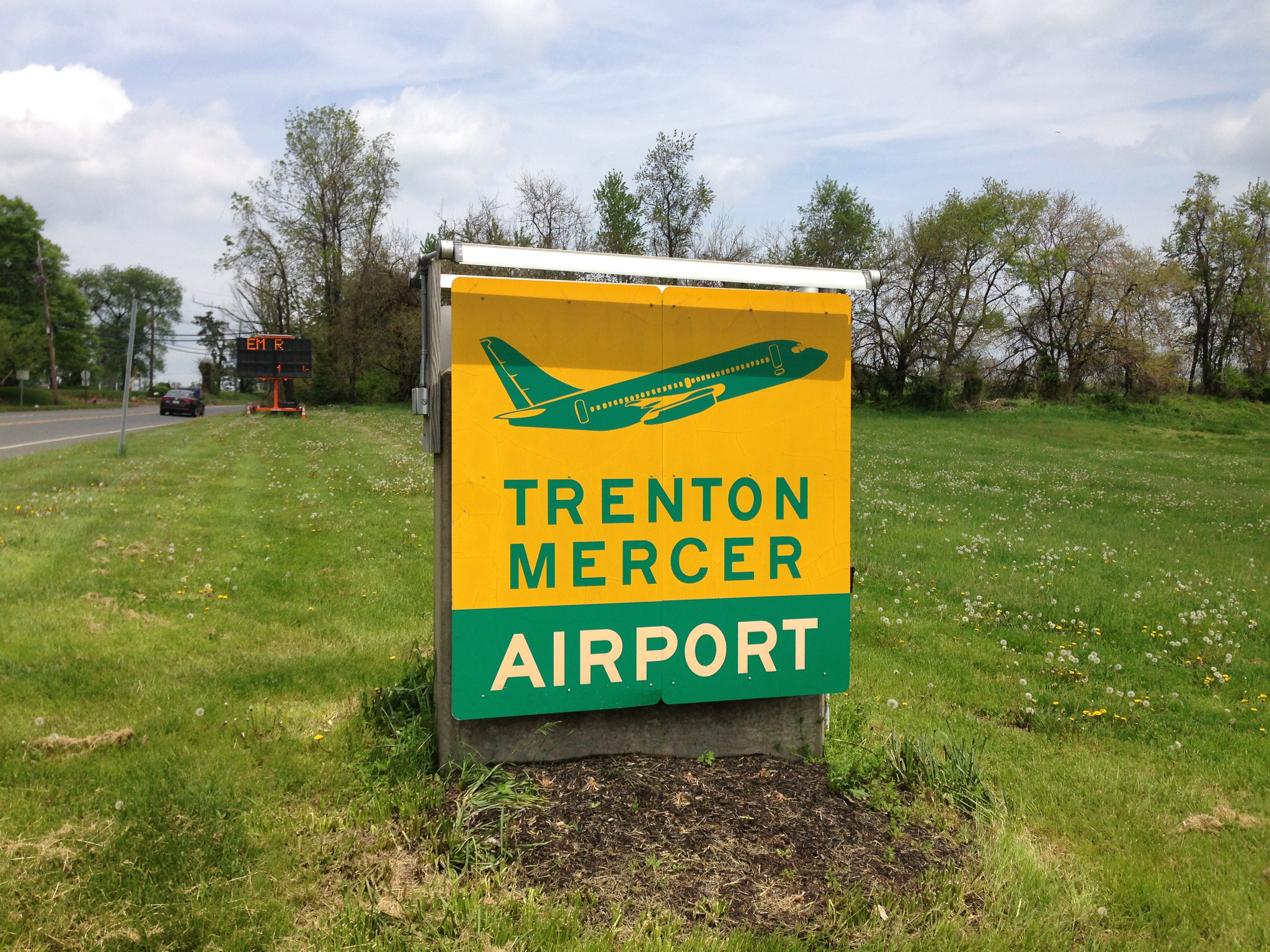 Sign at the entrance to Trenton-Mercer Airport on Bear Tavern Road (Mercer County Route 579) in Ewing, New Jersey